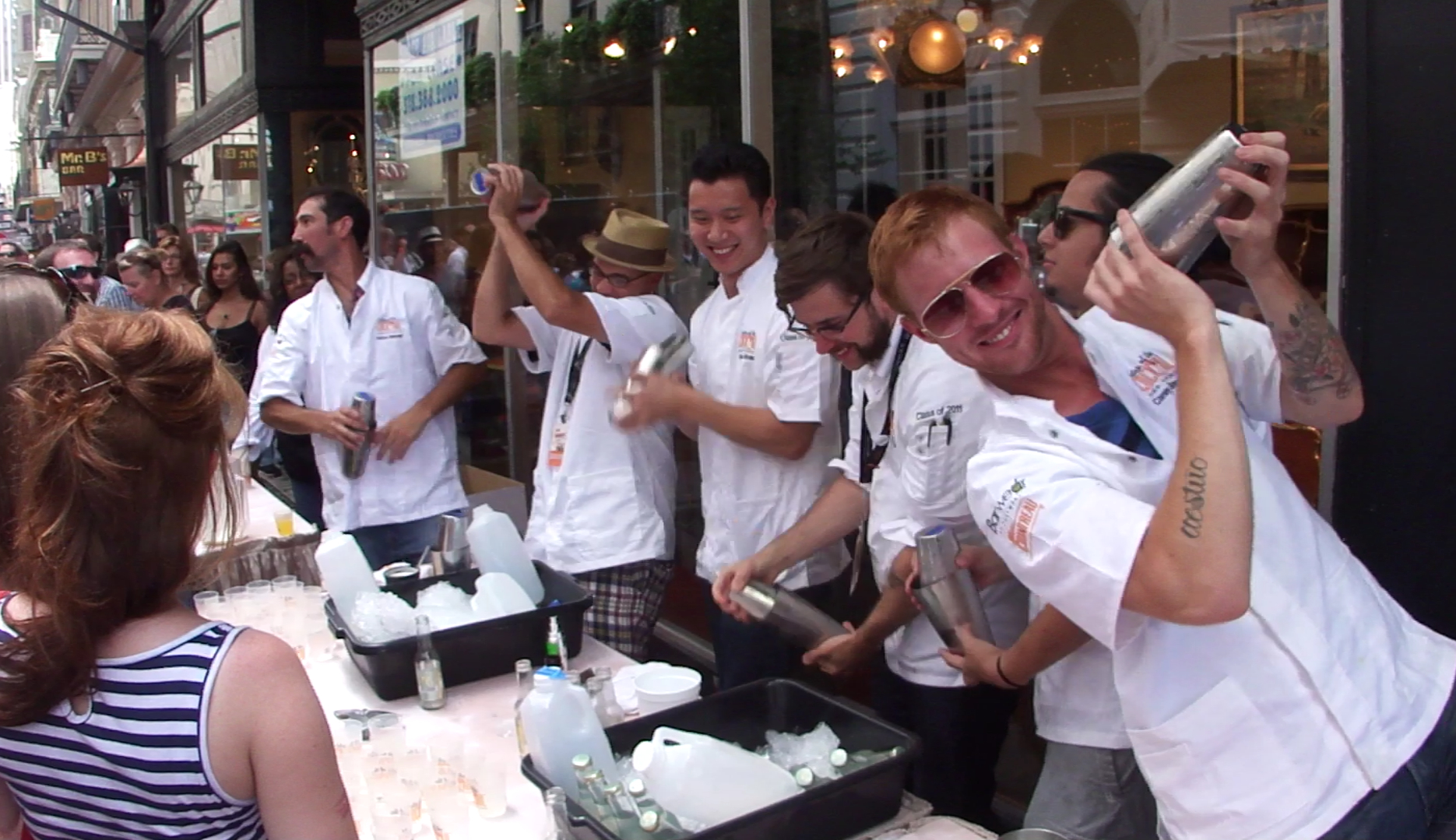 Tales of the cocktail, New Orleans